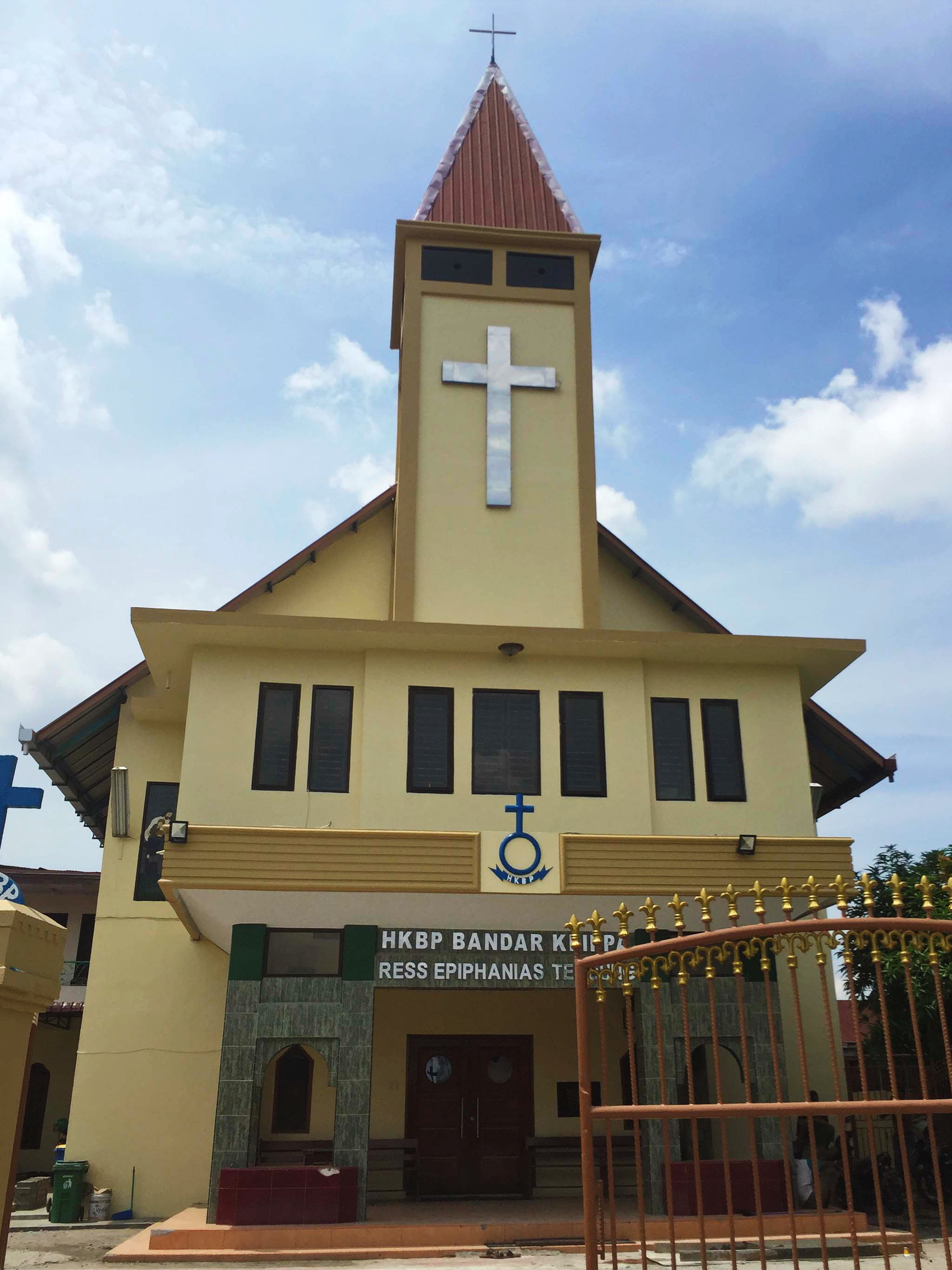 HKBP Bandar Klippa, Res. Epiphanias Tembung Church in Bandar Klippa, Percut Sei Tuan, Deli Serdang